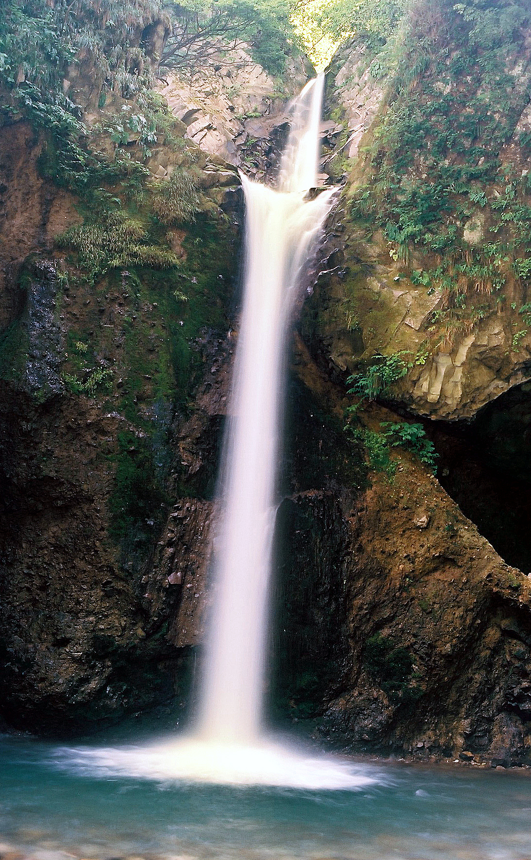 Daisen Falls(Daisendaki) is a waterfall in Kotoura, Tottori, Japan